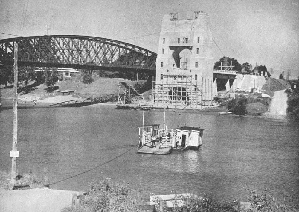 Indooroopilly ferry crossing the Brisbane River, 1935. The Walter Taylor Bridge is being constructed in the background.